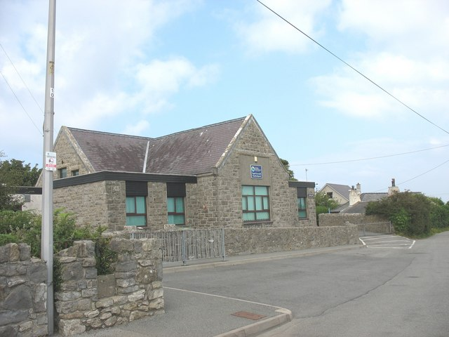 Ysgol Gynradd Llanbedrgoch Primary School The school, which over 100 years old, has around 45 pupils ranging in age from 3 to 11 years.